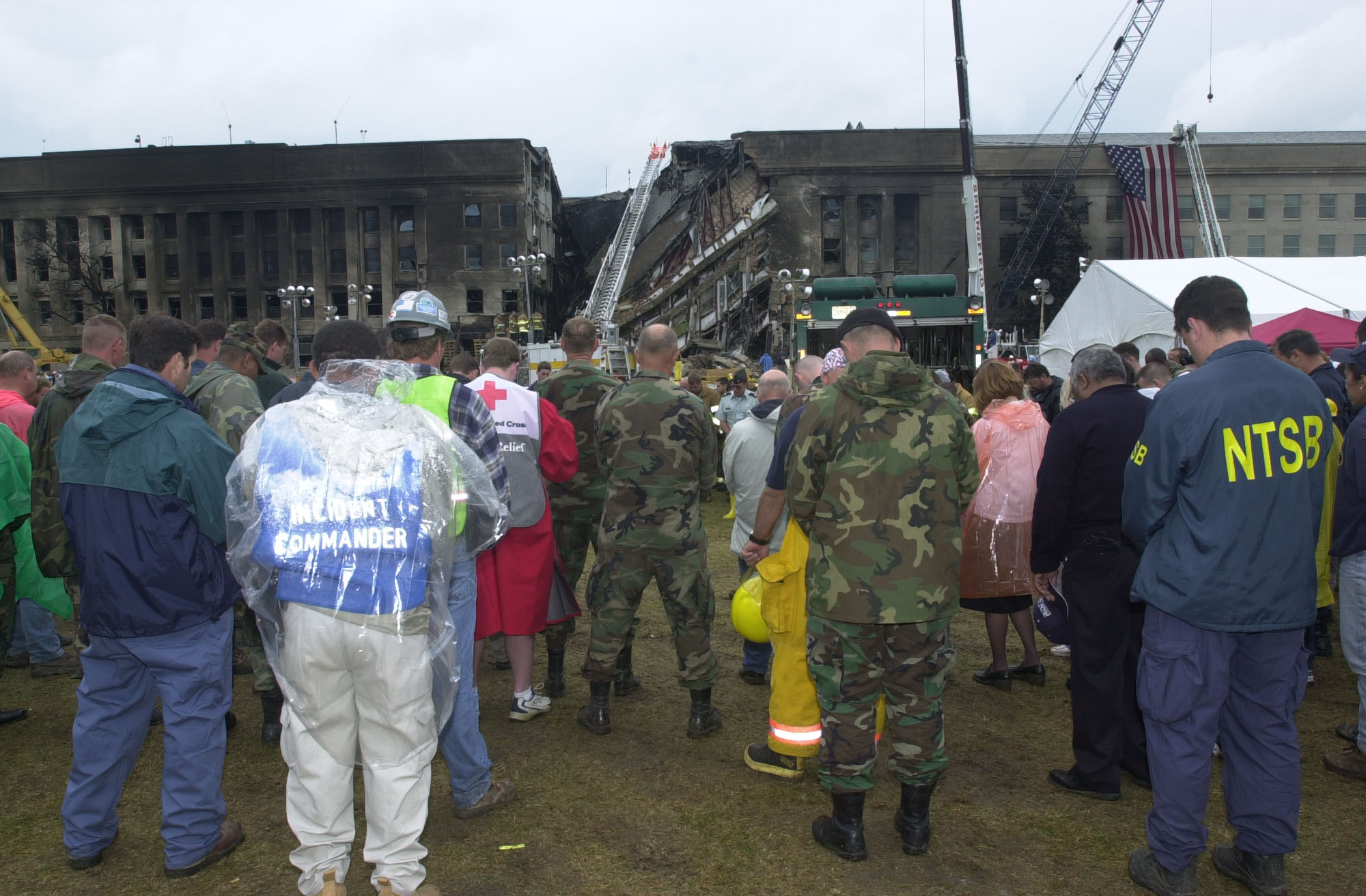 Arlington, VA, September 14, 2001 -- Rescue workers pause for moment of silence during National Day of Prayer and Remembrance outside the Pentagon crash site. Photo by Jocelyn Augustino/ FEMA News Photo